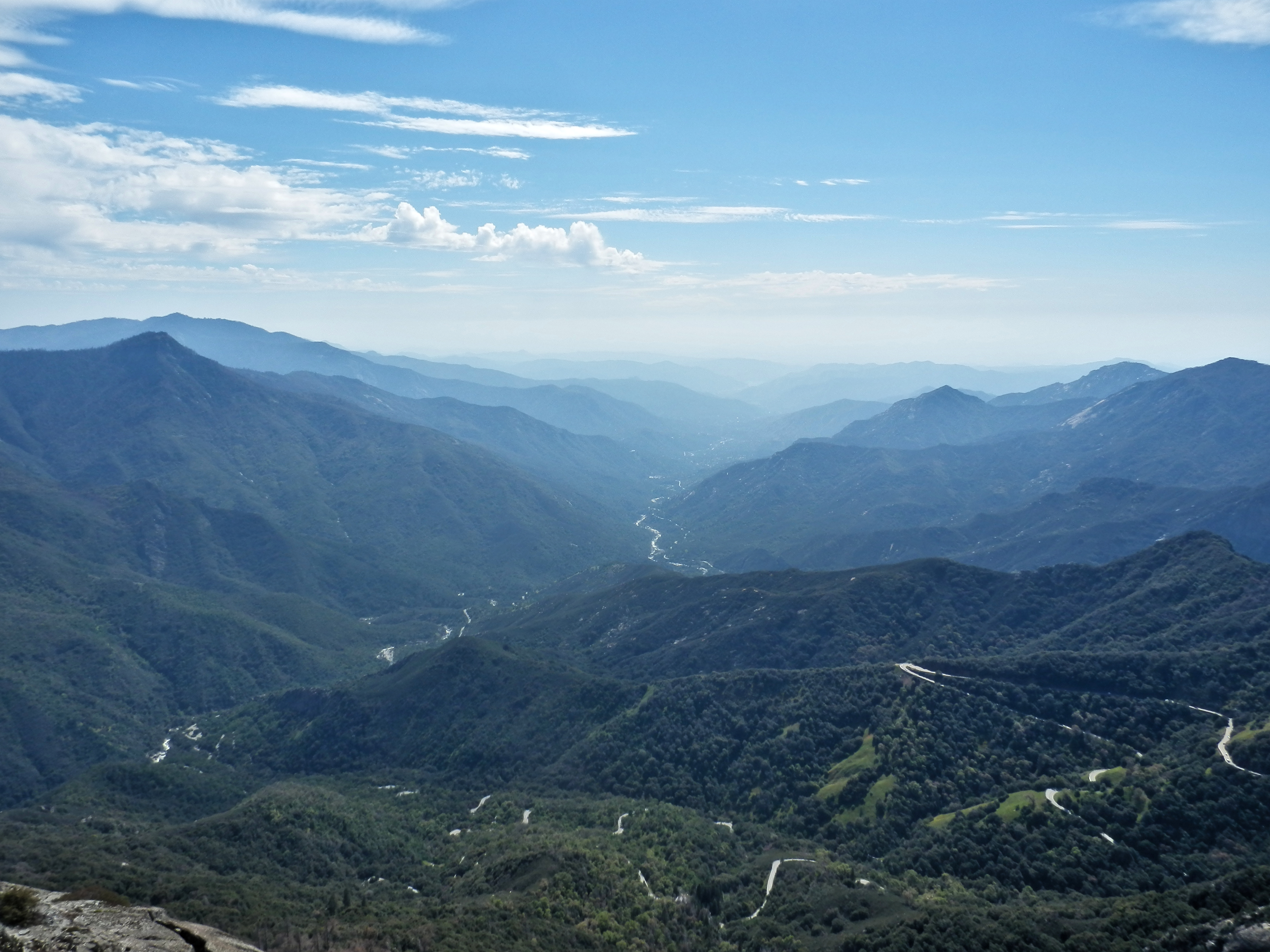 View from Moro Rock